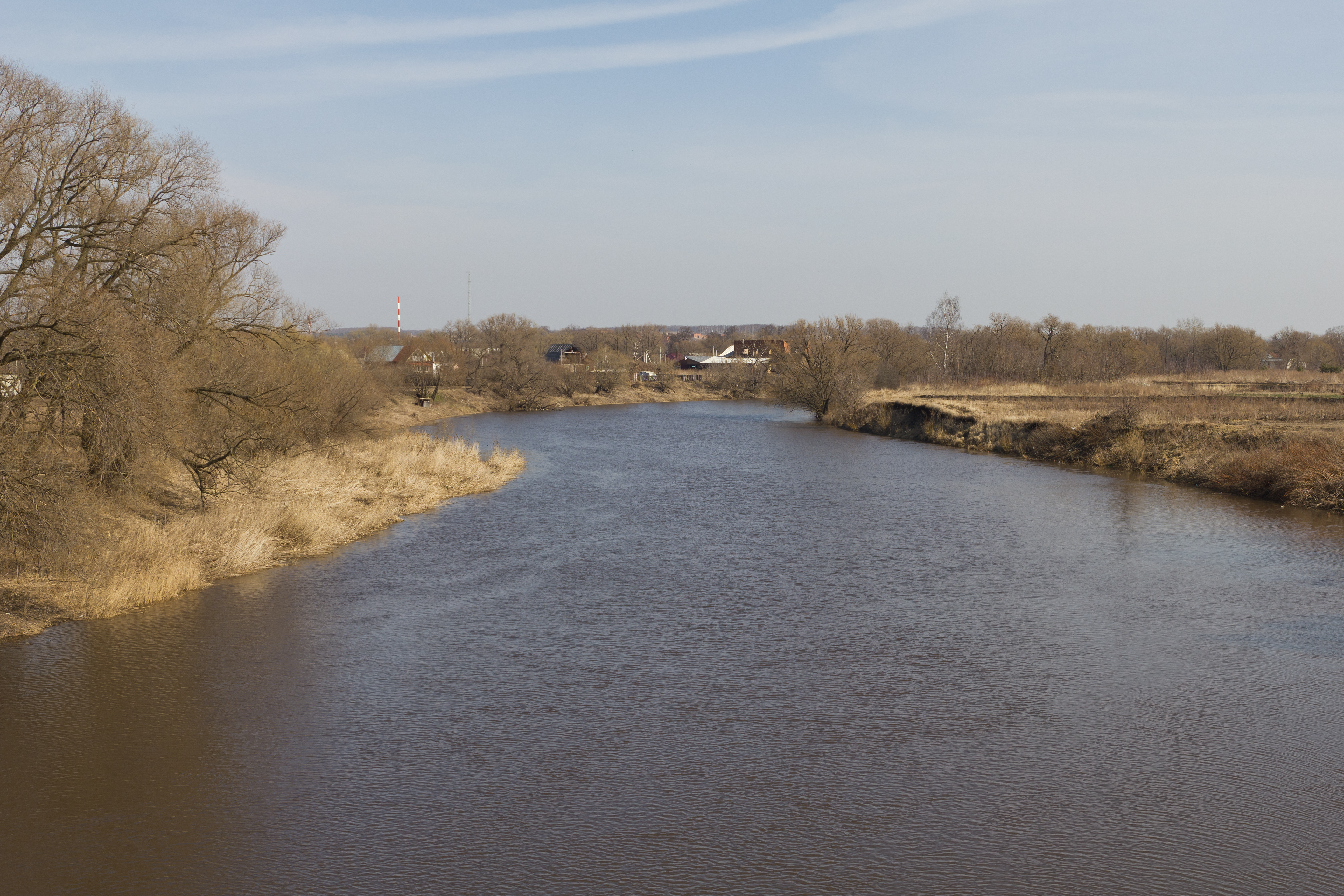 View of Osyotr River in Serebryanye Prudy, Moscow Oblast, Russia.